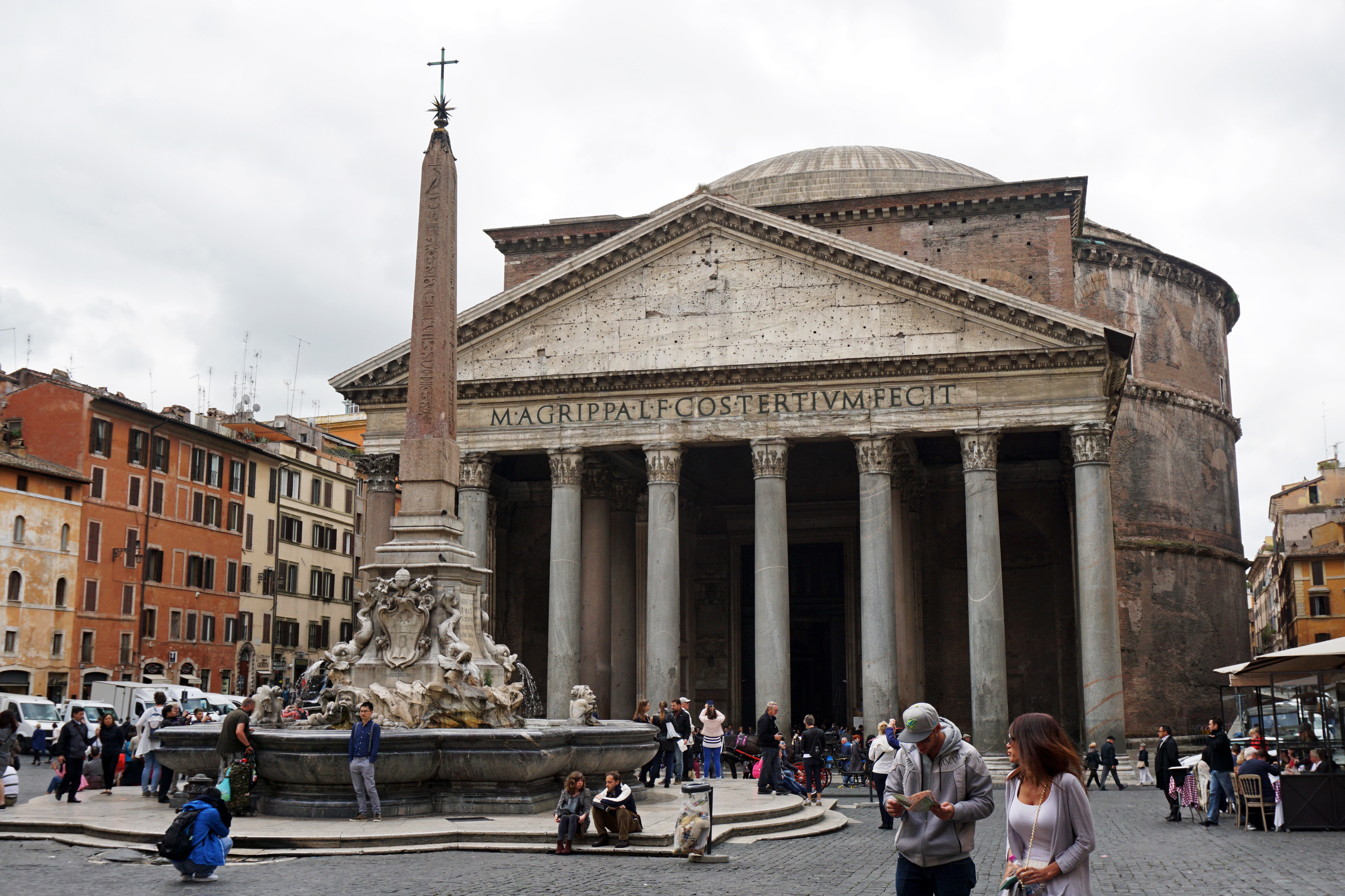 Pantheon, Rome, Italy.